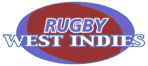 West Indies Rugby Logo